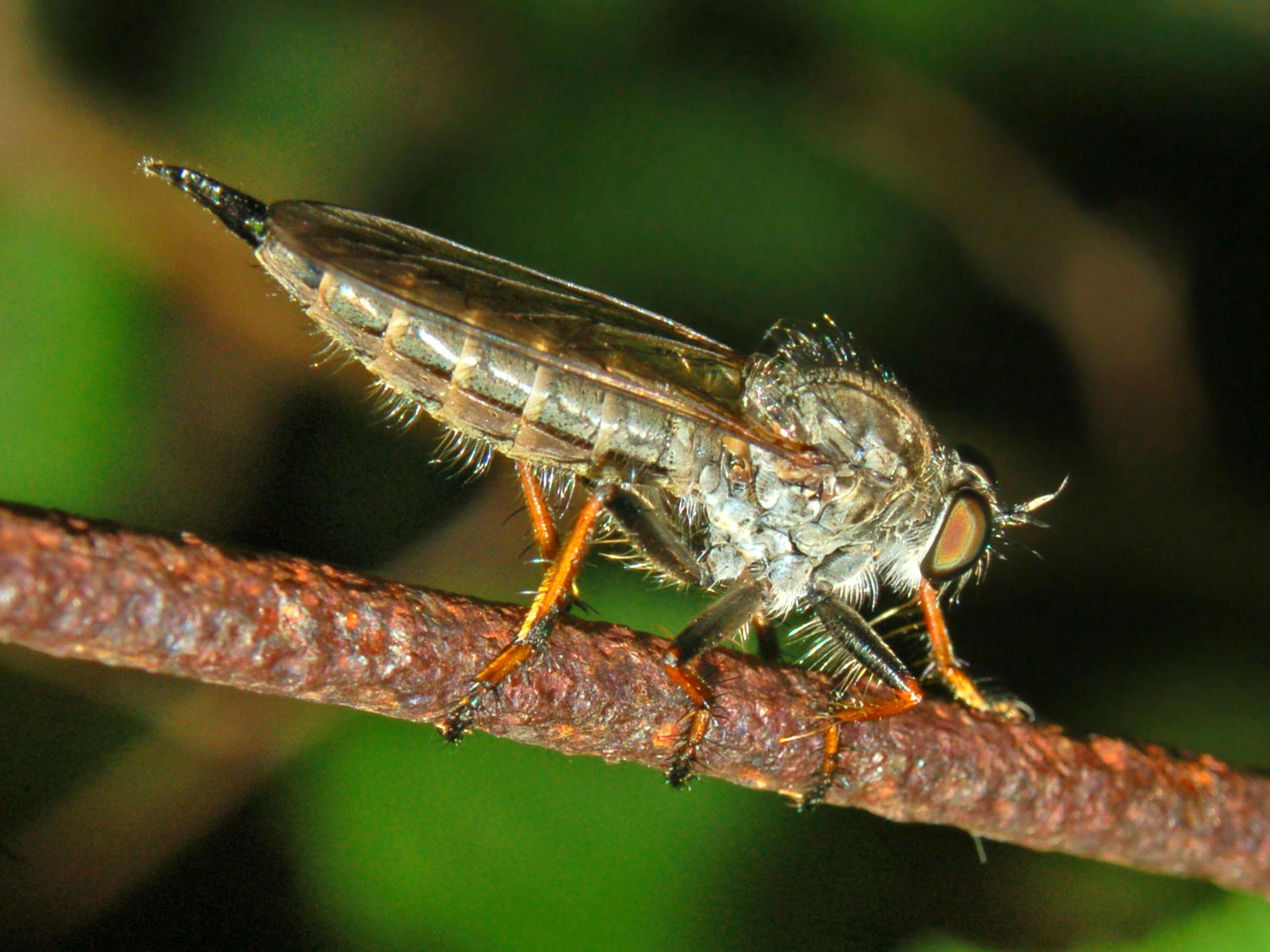 Neomochtherus geniculatus, female